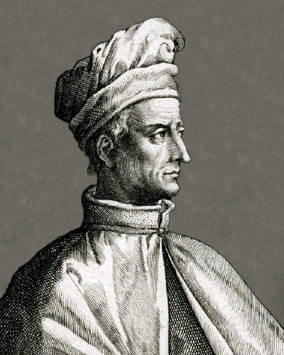 Portrait of Florentine explorer Amerigo Vespucci in a turban. Print by Crispijn van de Passe the Elder.